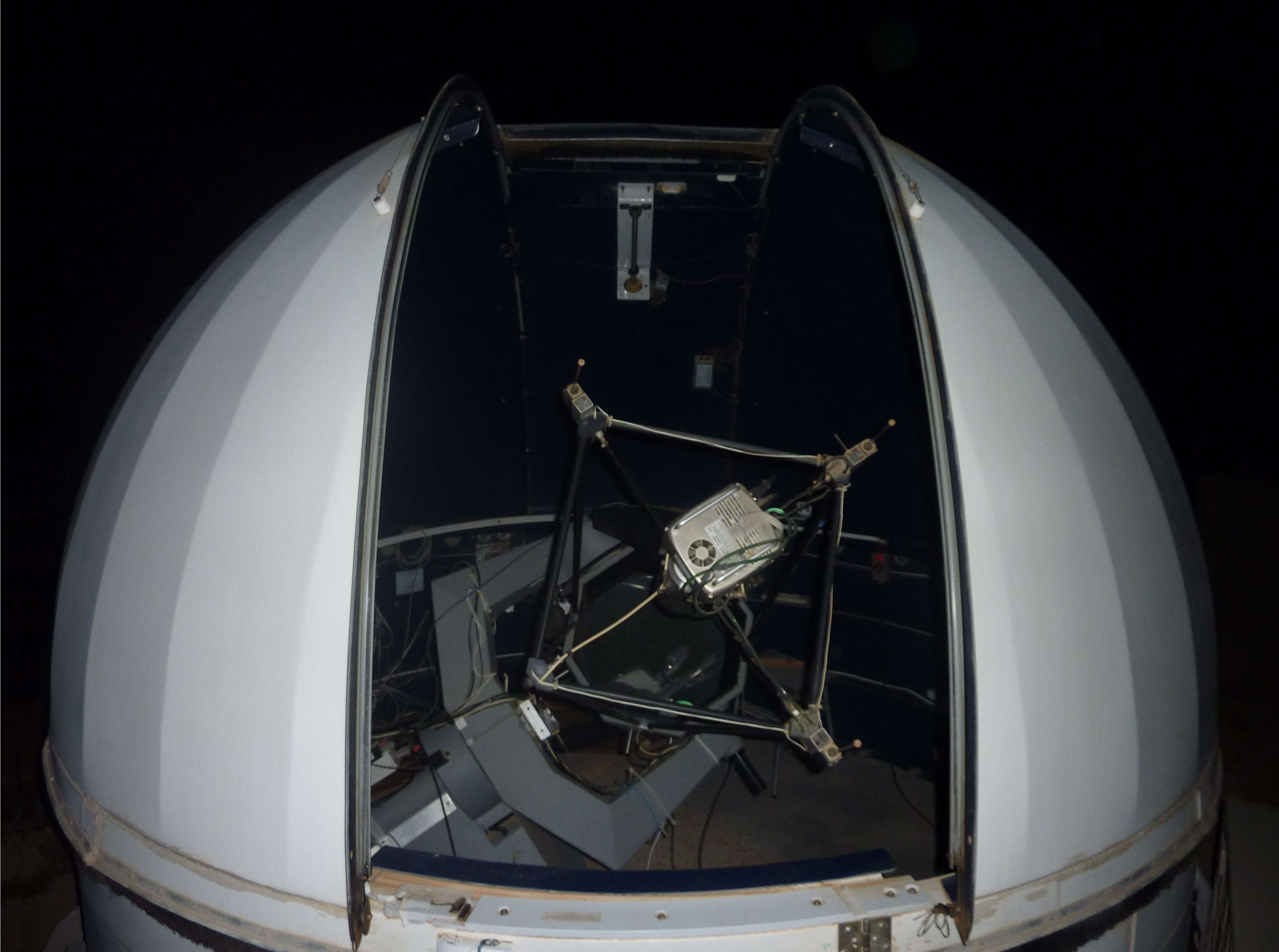 The C18 45cm Telescope at Wise Observatory, Israel